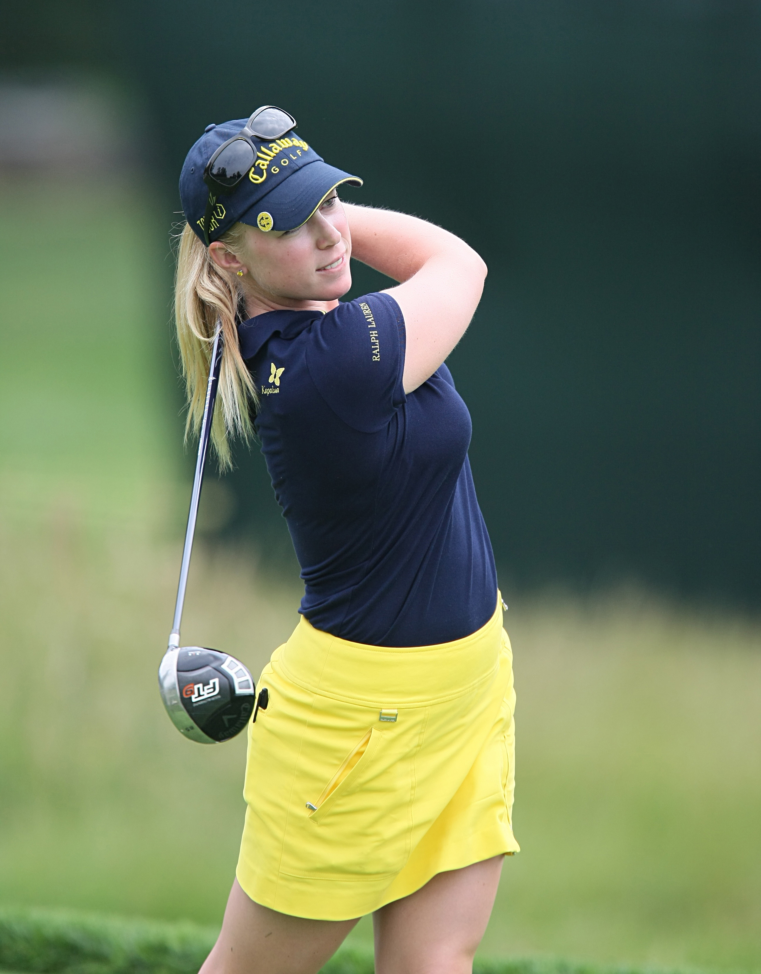 HAVRE DE GRACE, MD - JUNE 08: Morgan Pressel (USA) during Pro-Am before 2009 LPGA Championship held at Bulle Rock Golf Course, on June 8, 2009 in Havre de Grace, Maryland. (Photo by Keith Allison)